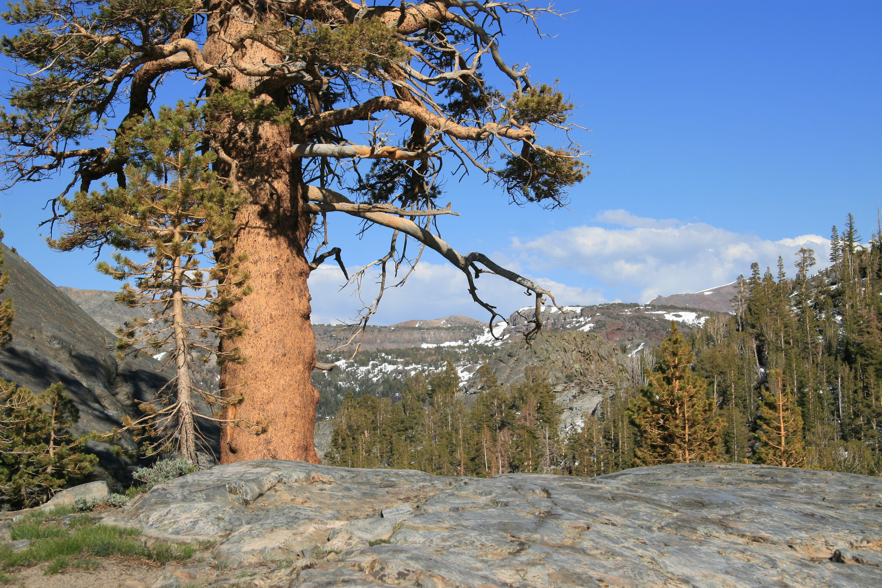 Big lodgepole pine (Pinus contorta) on rock ledge, Ansel Adams Wilderness, Sierra Nevada, USA.